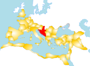 Province of Illyricum (red)